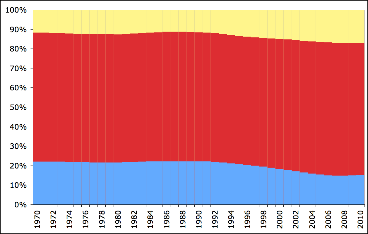 Estonia's age structure (1970–2010). Created in Microsoft Excel. Data is always from January 1 and taken from Statistics Estonia. Age: 0–14 Age: 15–64 Age: 65+